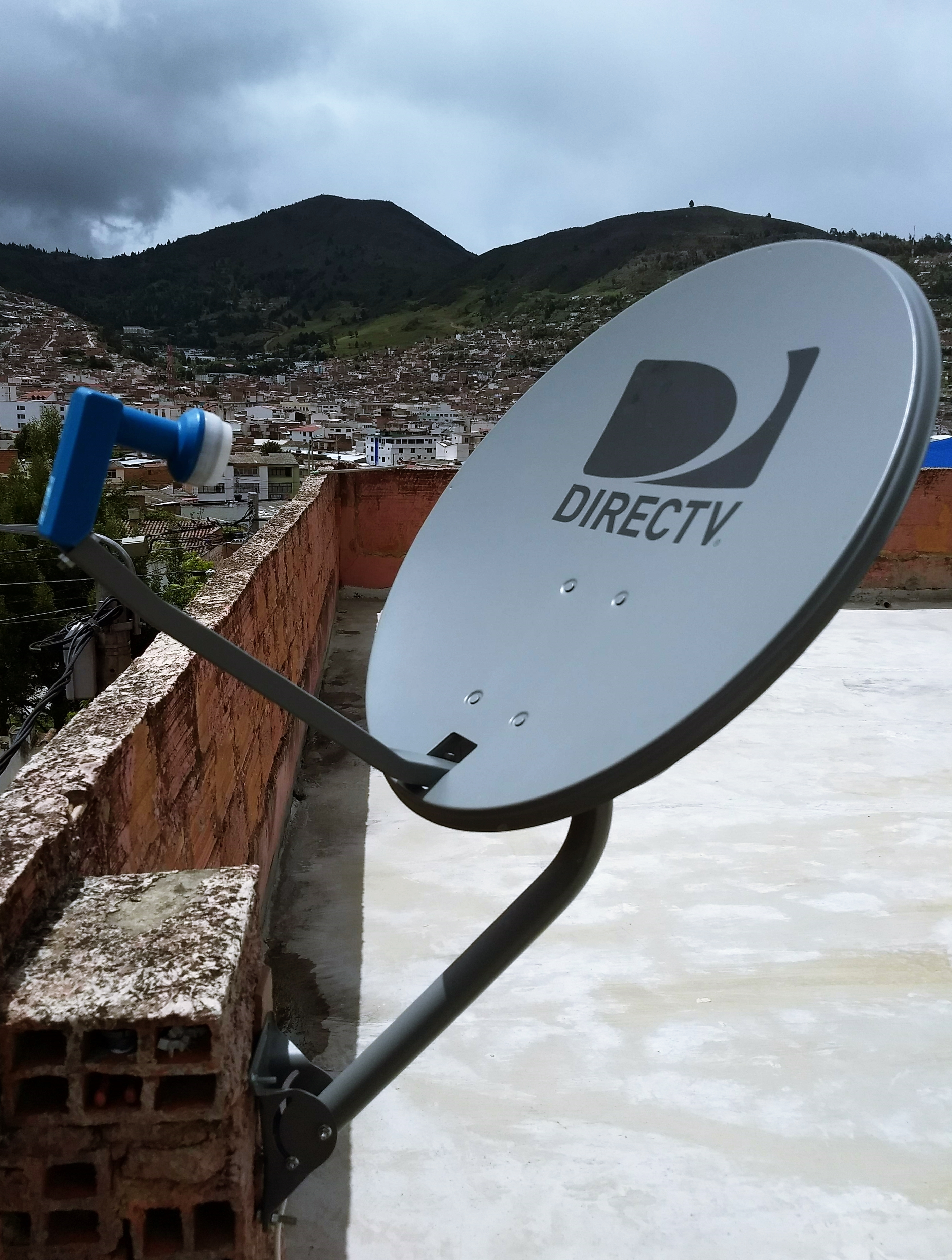 DirecTV Dish "round" with SF8 Dual LNB used in Latin America and Caribbean